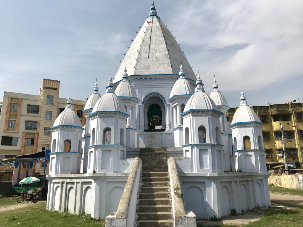 The beautiful white-coloured Rasmancha is dedicated to Lord Shyam Sundarji of Khardah.